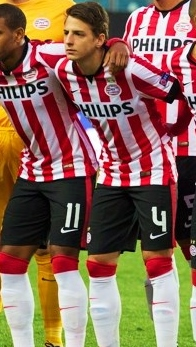 Santiago Arias.